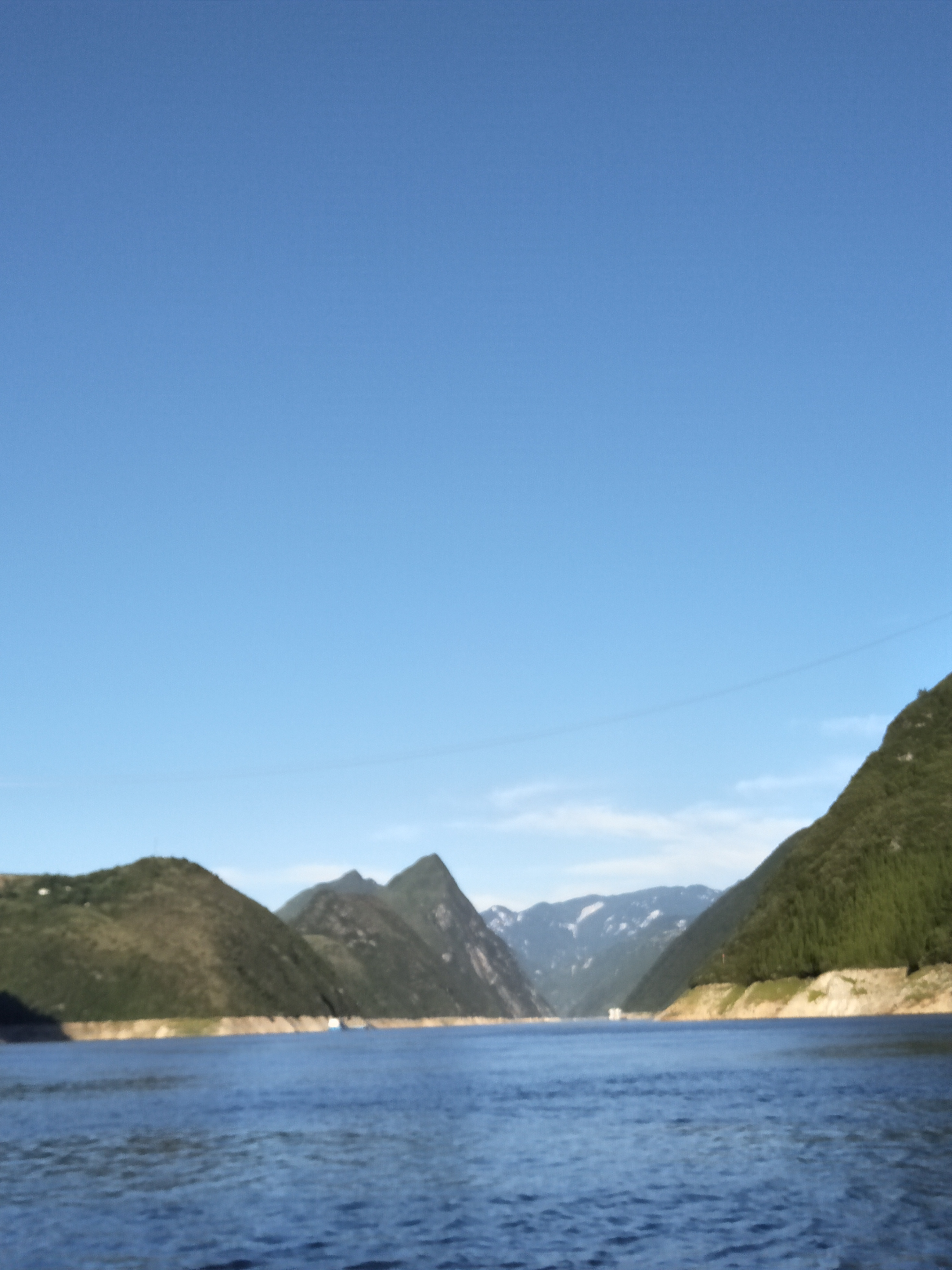 The Yangtze River in Badong County, Hubei, China. 中文（中国大陆）: 流经湖北省巴东县的长江。